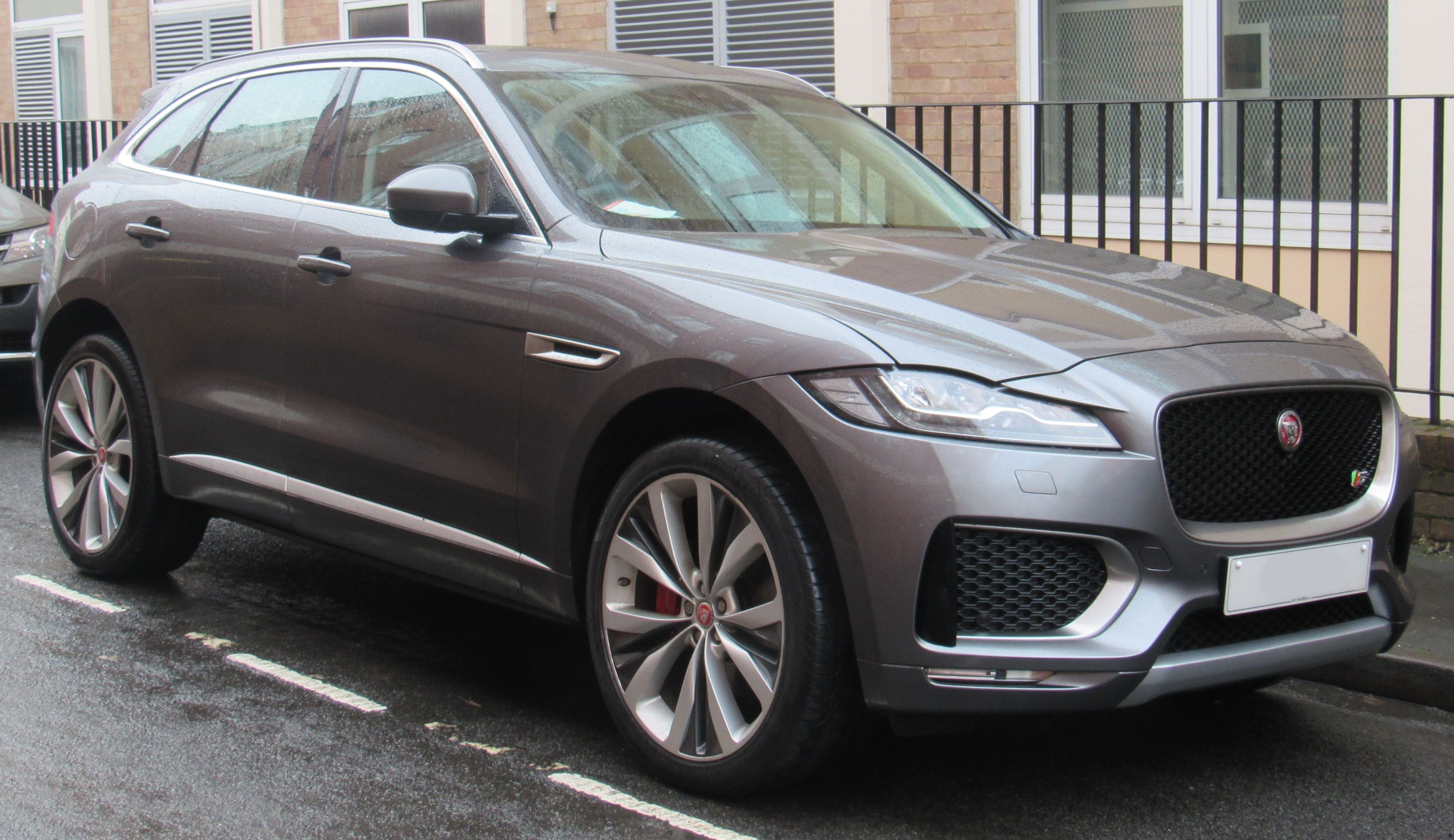 2016 Jaguar F-Pace V6 S AWD Automatic 3.0 Front